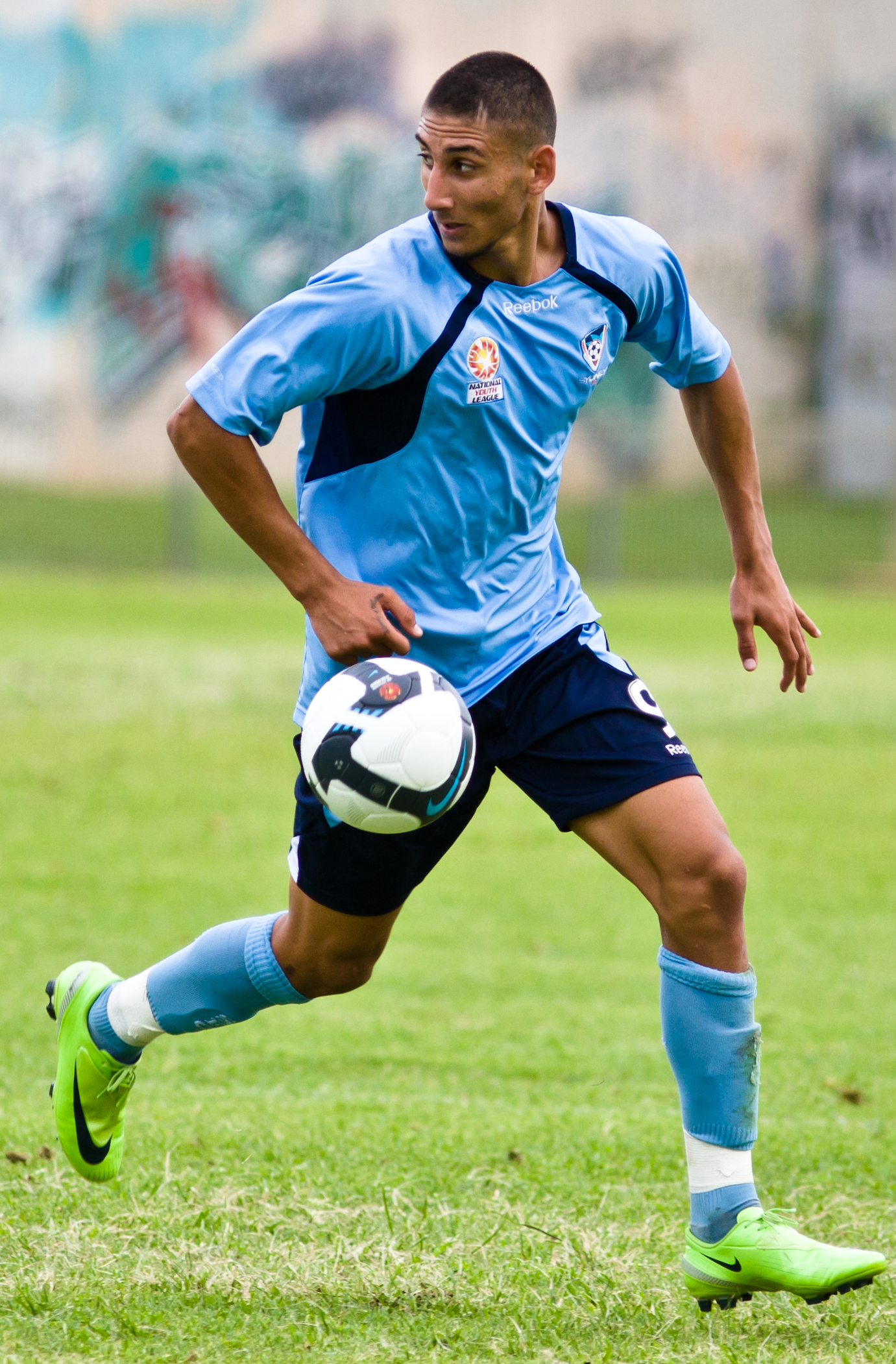 Kerem Bulut playing for Sydney FCs National Youth League team at Cromer Park in Cromer, New South Wales, Australia.